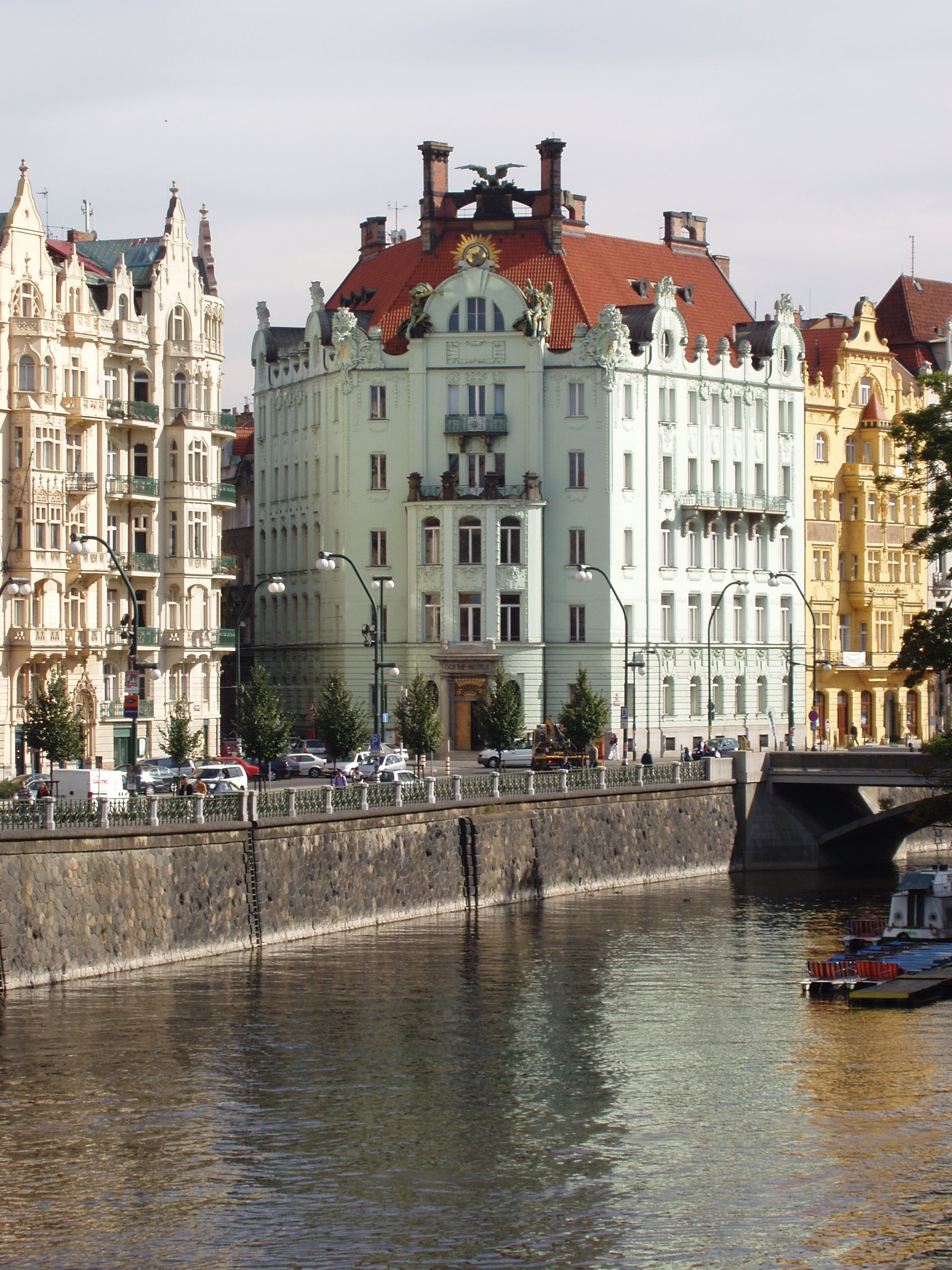 Goethe Institut